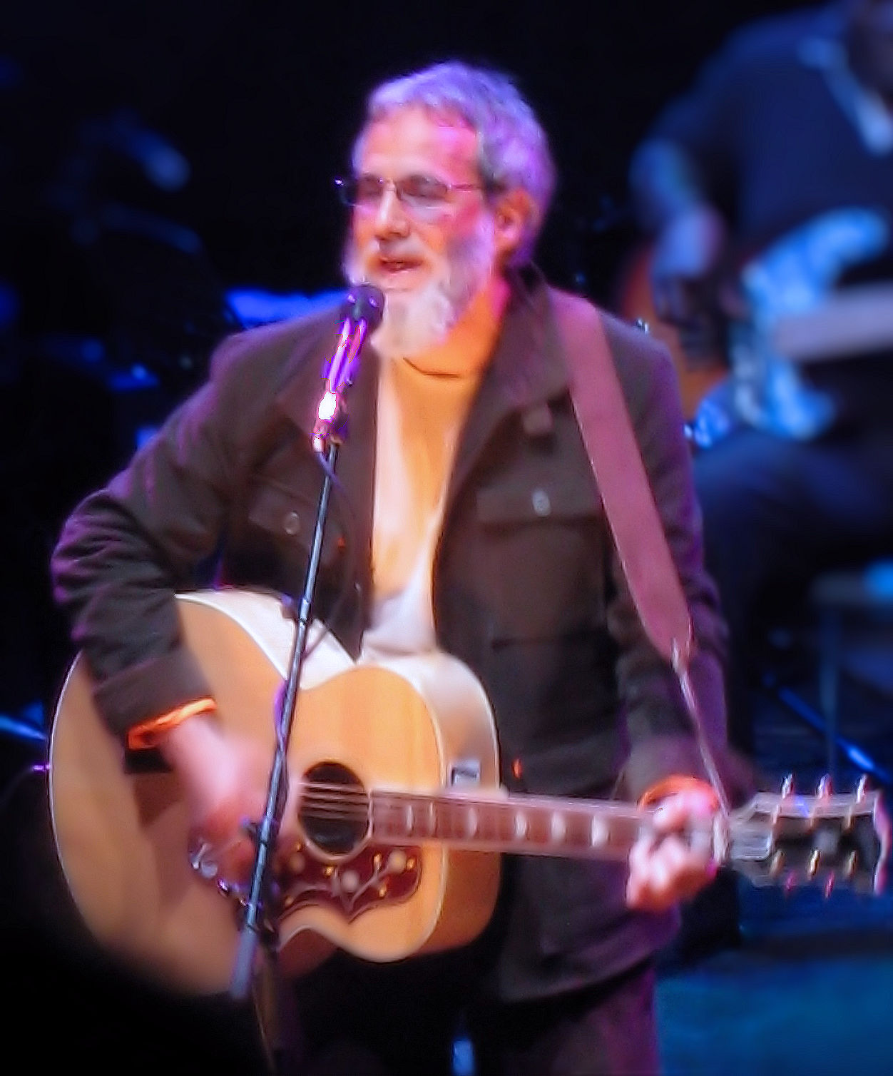 Yusuf Islam performing in London at Shepherds Bush Empire, 2009 for Island Record's 50th Anniversary.